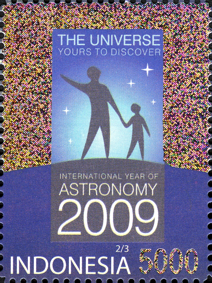 Stamps of Indonesia